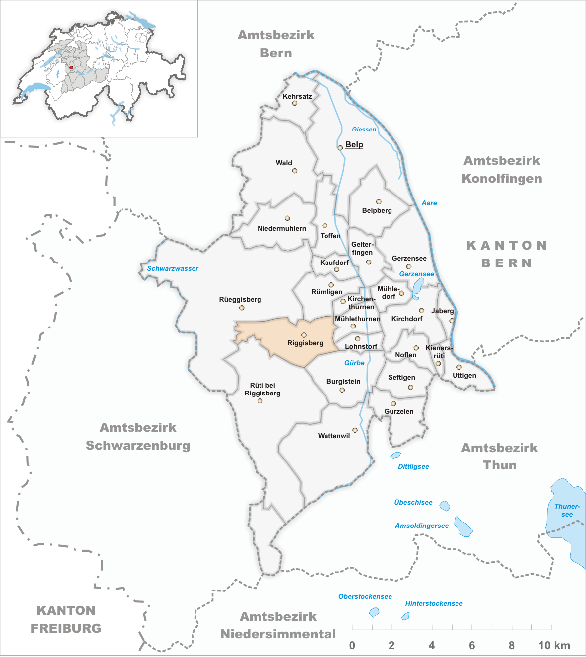 Municipality Riggisberg